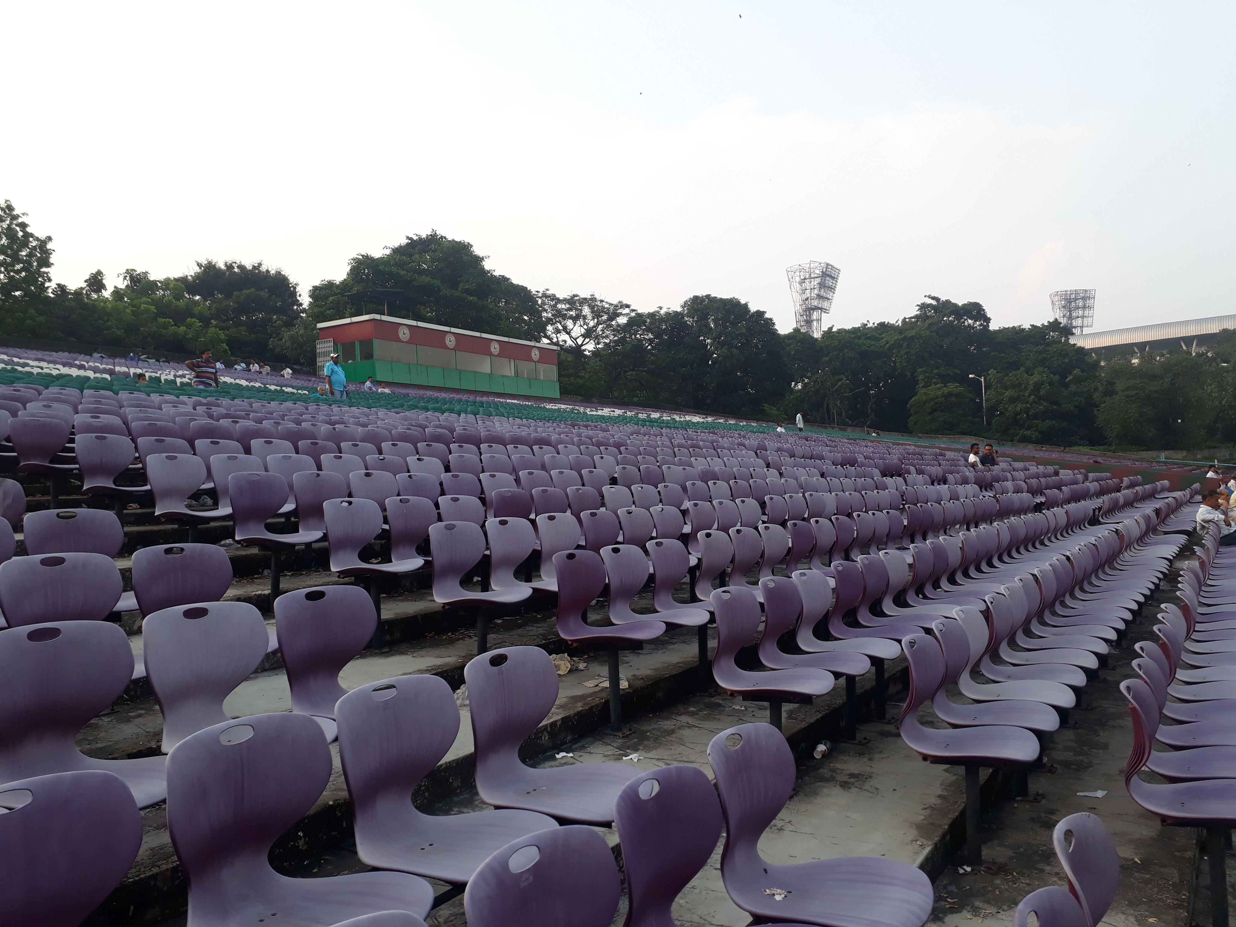 Mohun Bagan Athletic Club Ground and gallery in Kolkata